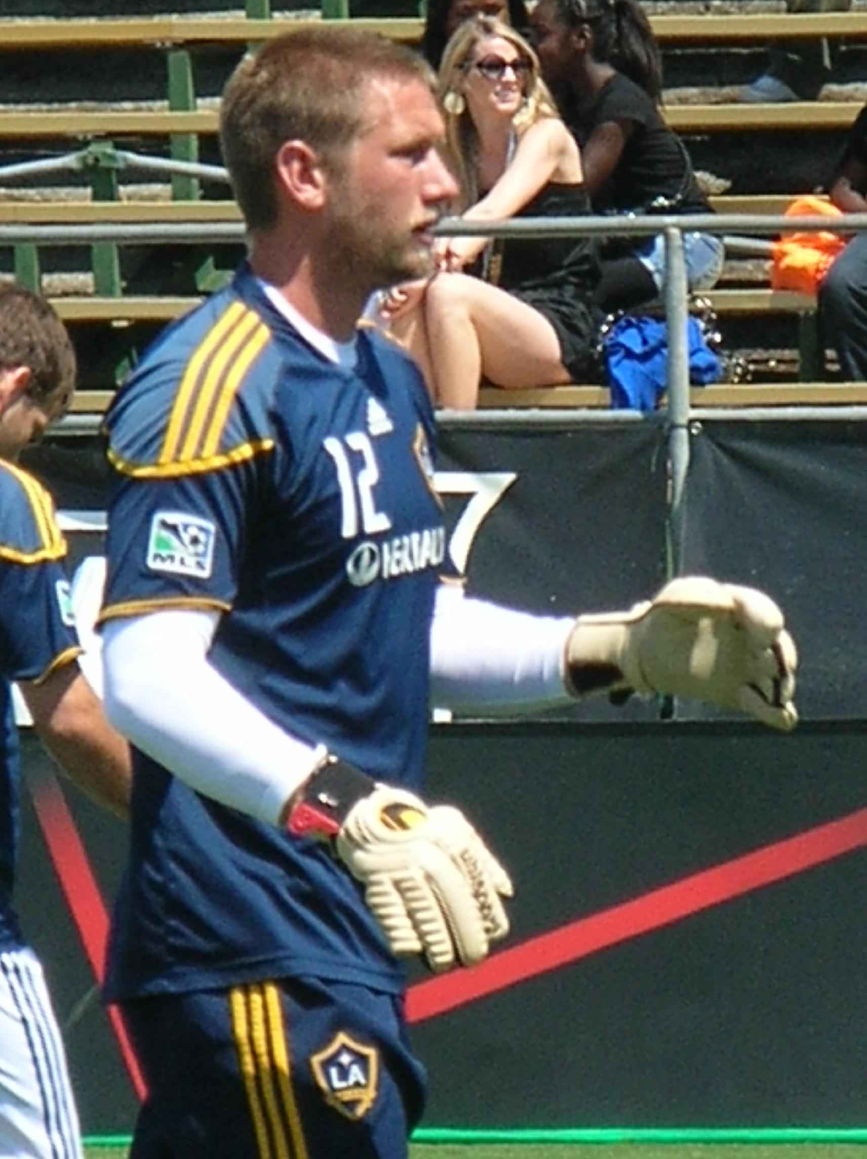 LA Galaxy goalkeeper Josh Saunders warming up before an away game against the San Jose Earthquakes. The Earthquakes won 1-0.